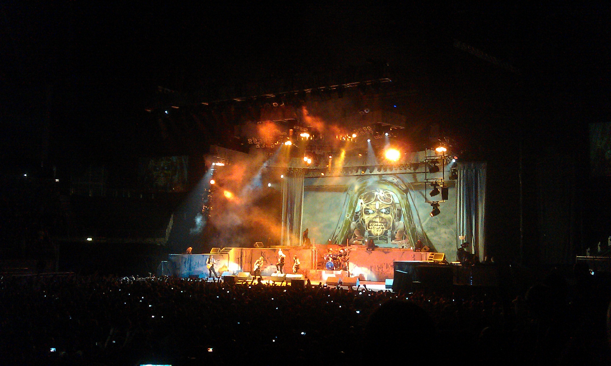 Iron Maiden